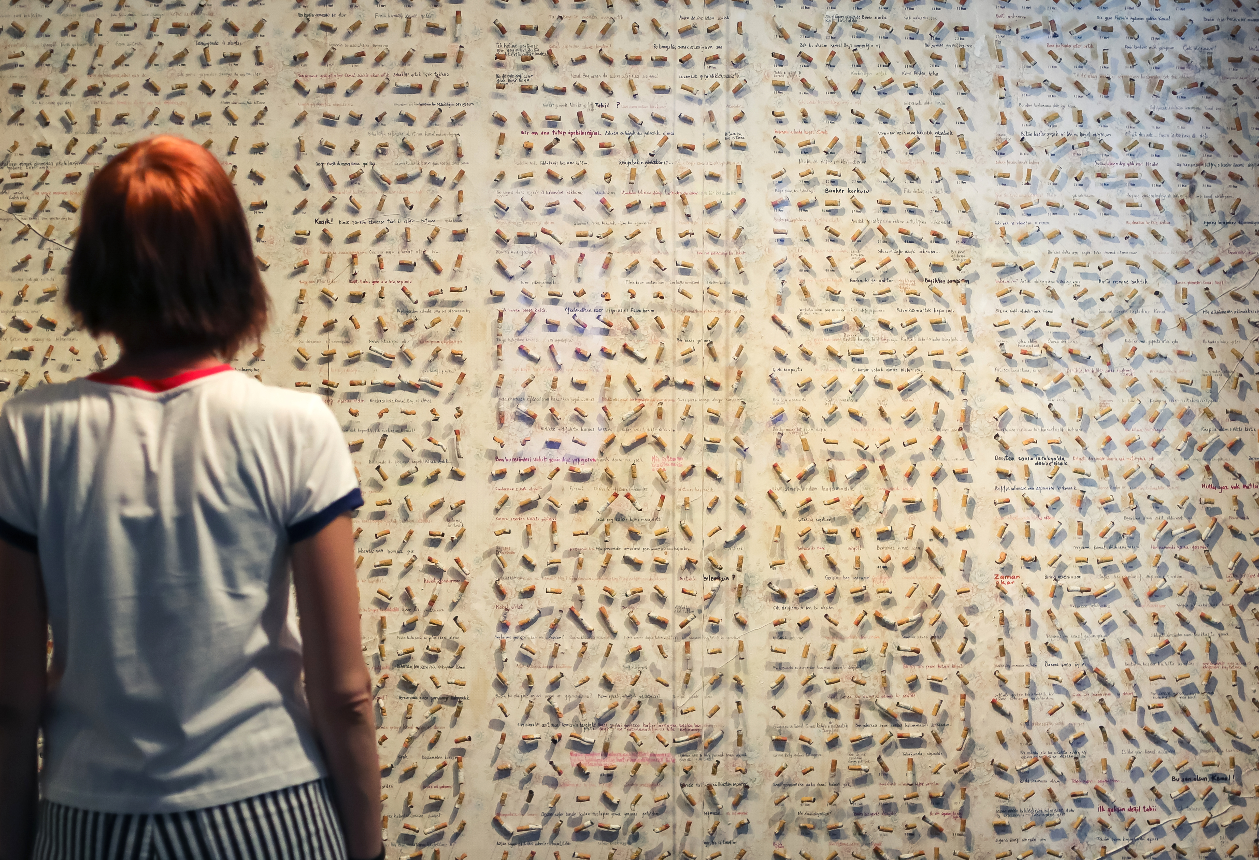 The Museum of Innocence.